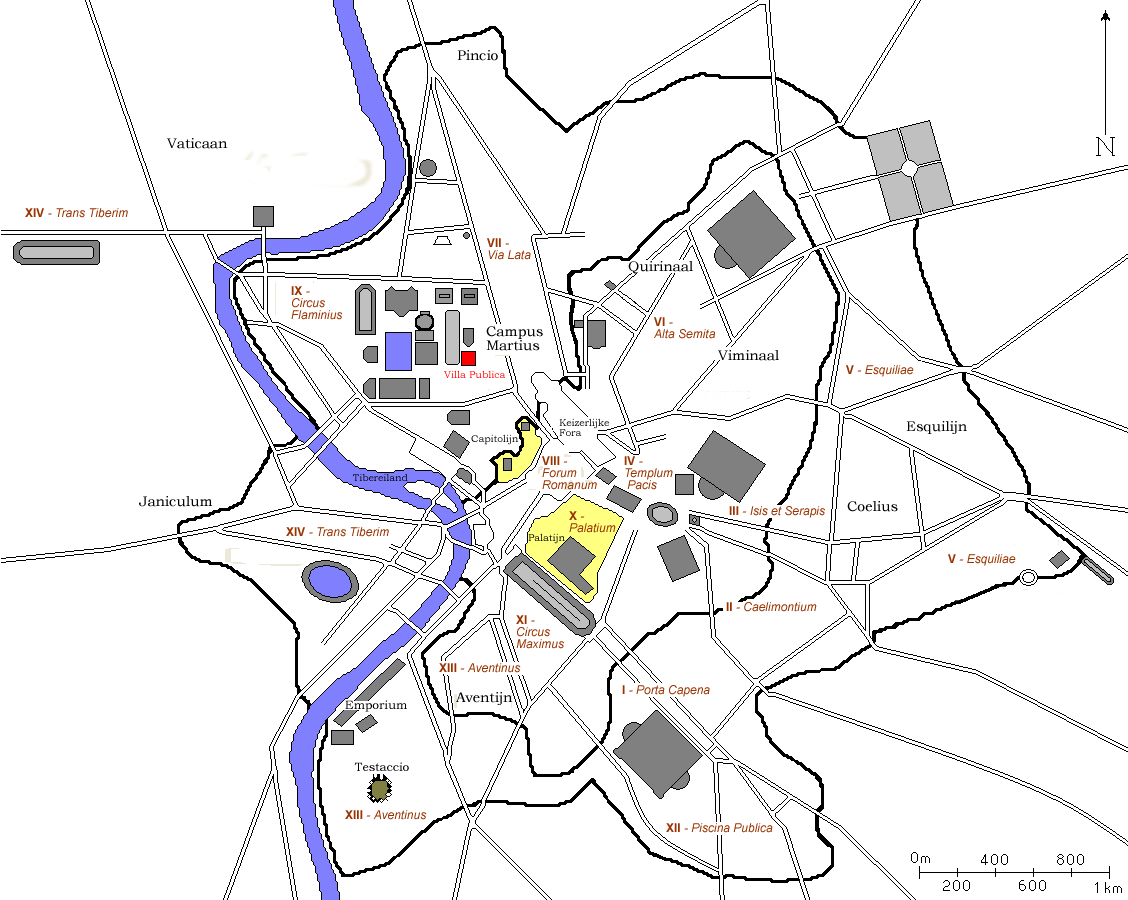 Location of the Villa Publica on a map of ancient Rome